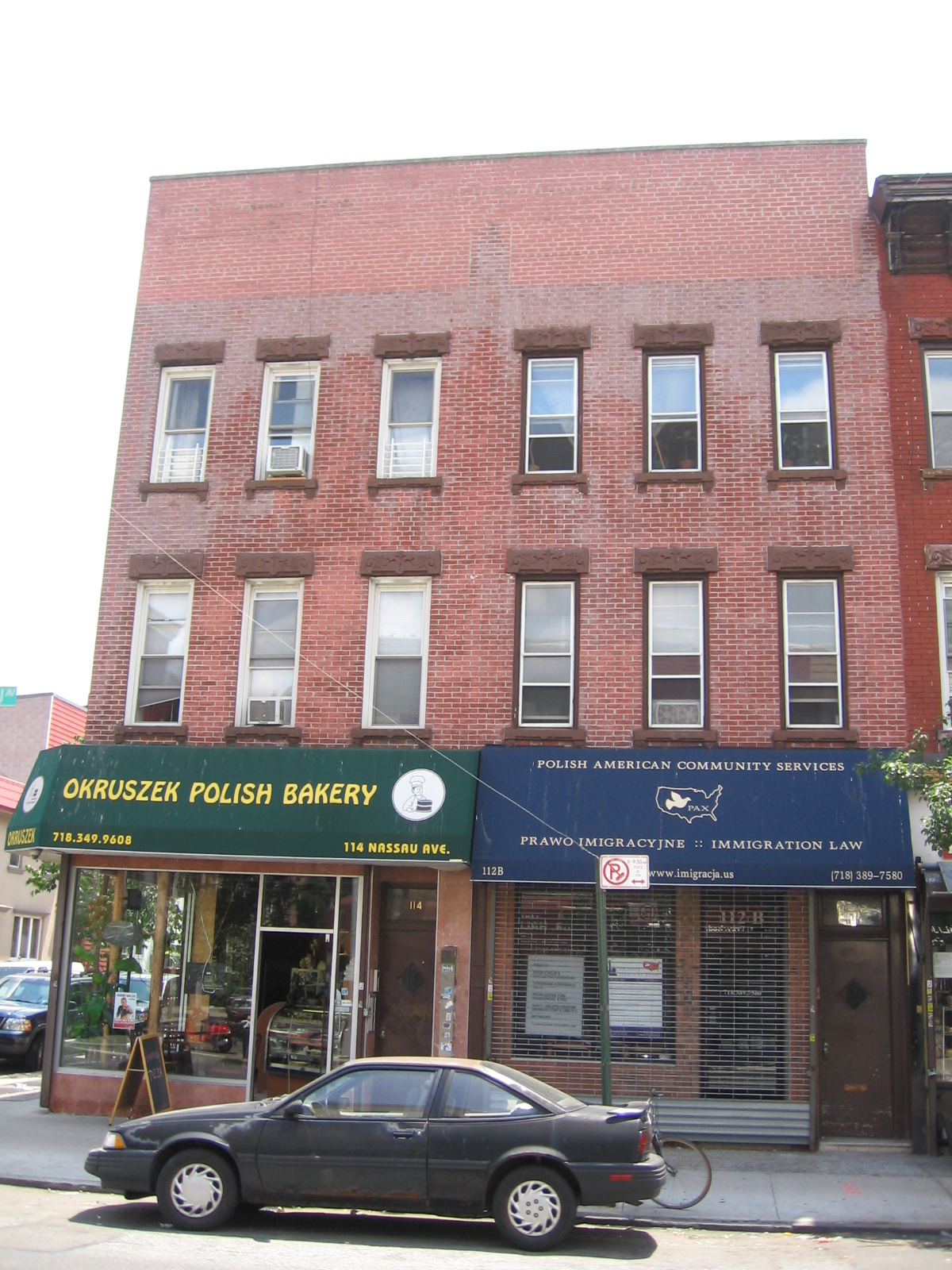 Stores in Little Poland, Greenpoint, Brooklyn